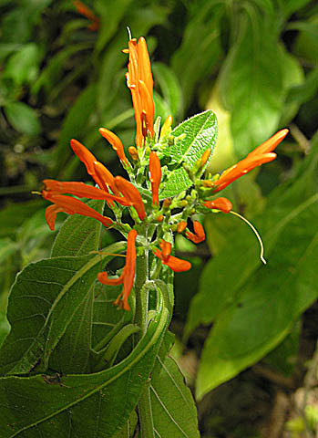 A widespread shrub, here in Juyjuy Province, Argentina. In context at